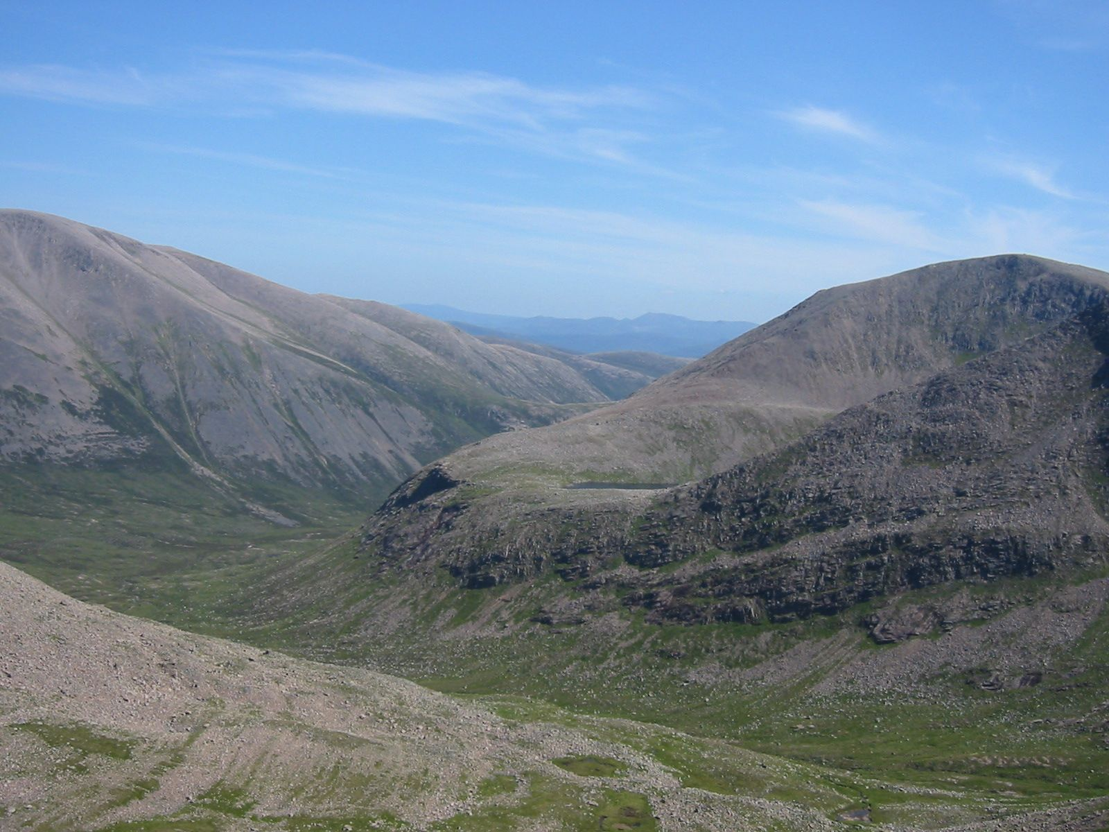 Cairn Toul (R) across An Garbh Choire; Ben Macdui (L) beyond the Lairig Ghru in the Cairngorms of Scotland.